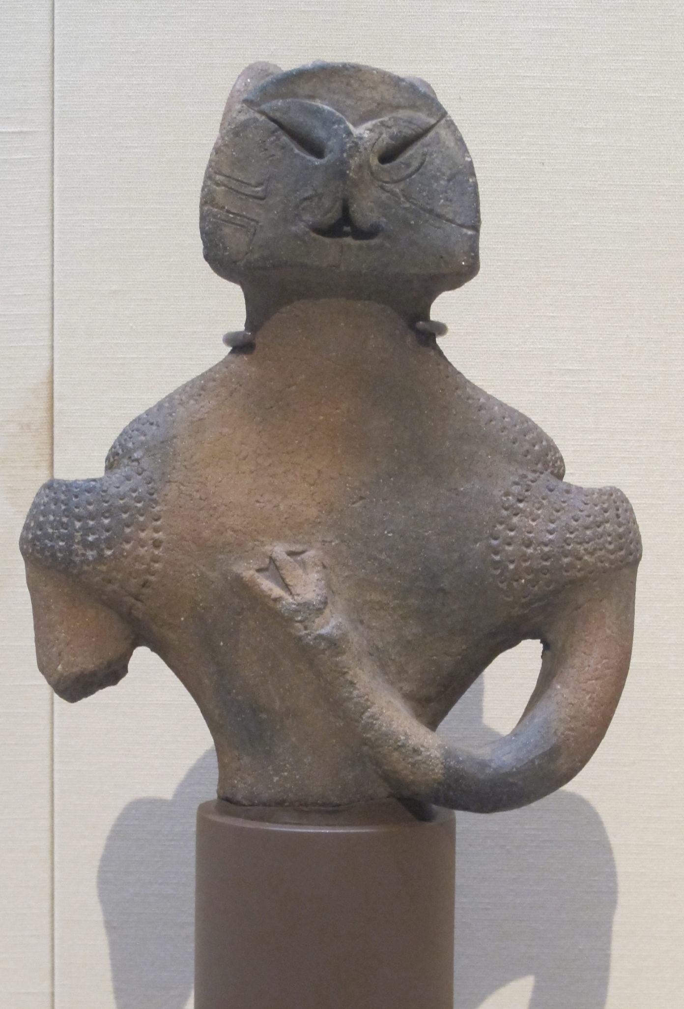 Dogu, excavated at Kamikurokoma, Misaka-cho, Fuefuki-shi, Yamanashi, Jomon period, 3000-2000 BC [1]